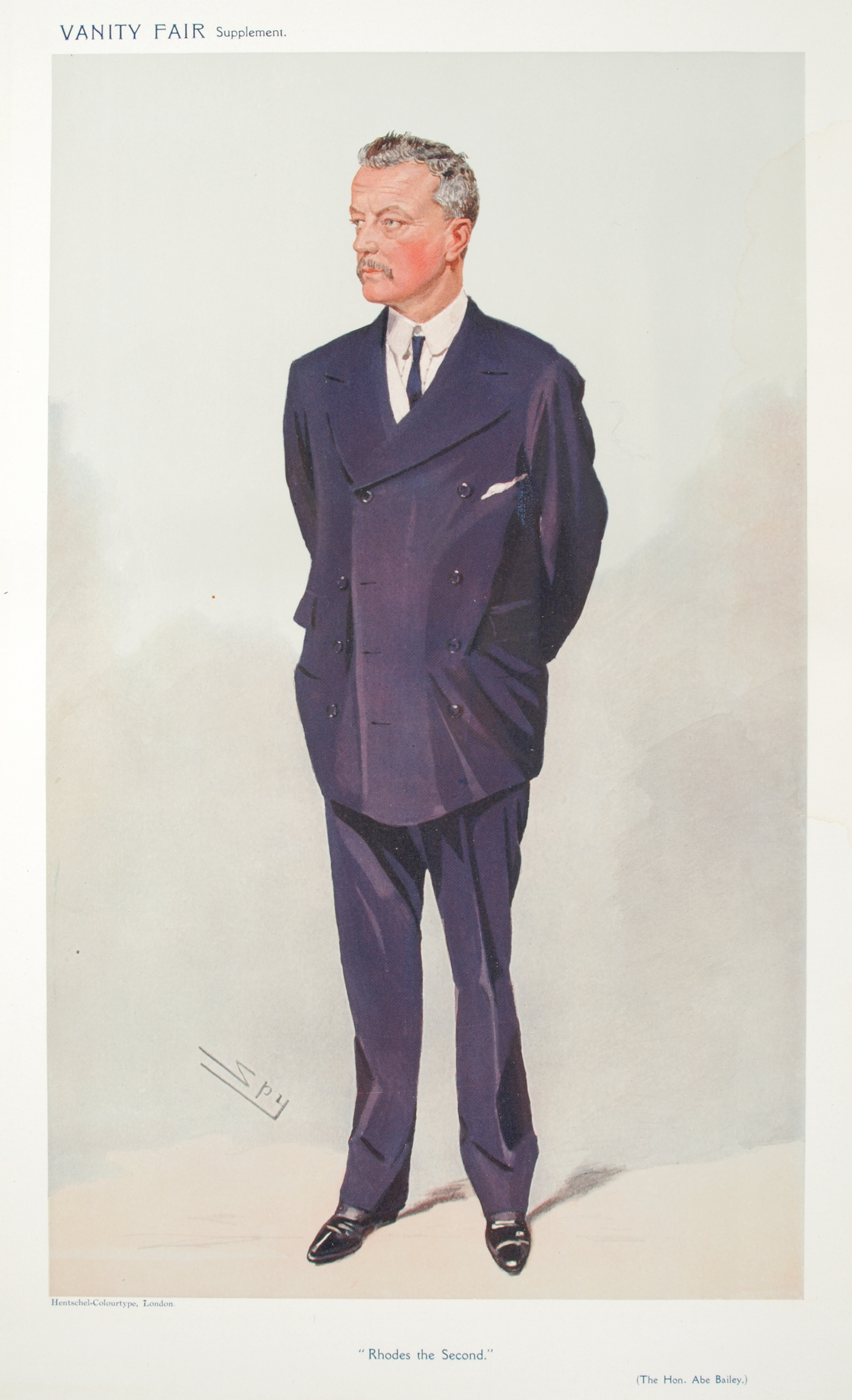 Men of the Day No.1135: Caricature of Abraham "Abe" Bailey (1864-1940), later Baronet. Caption reads: "Rhodes the Second"